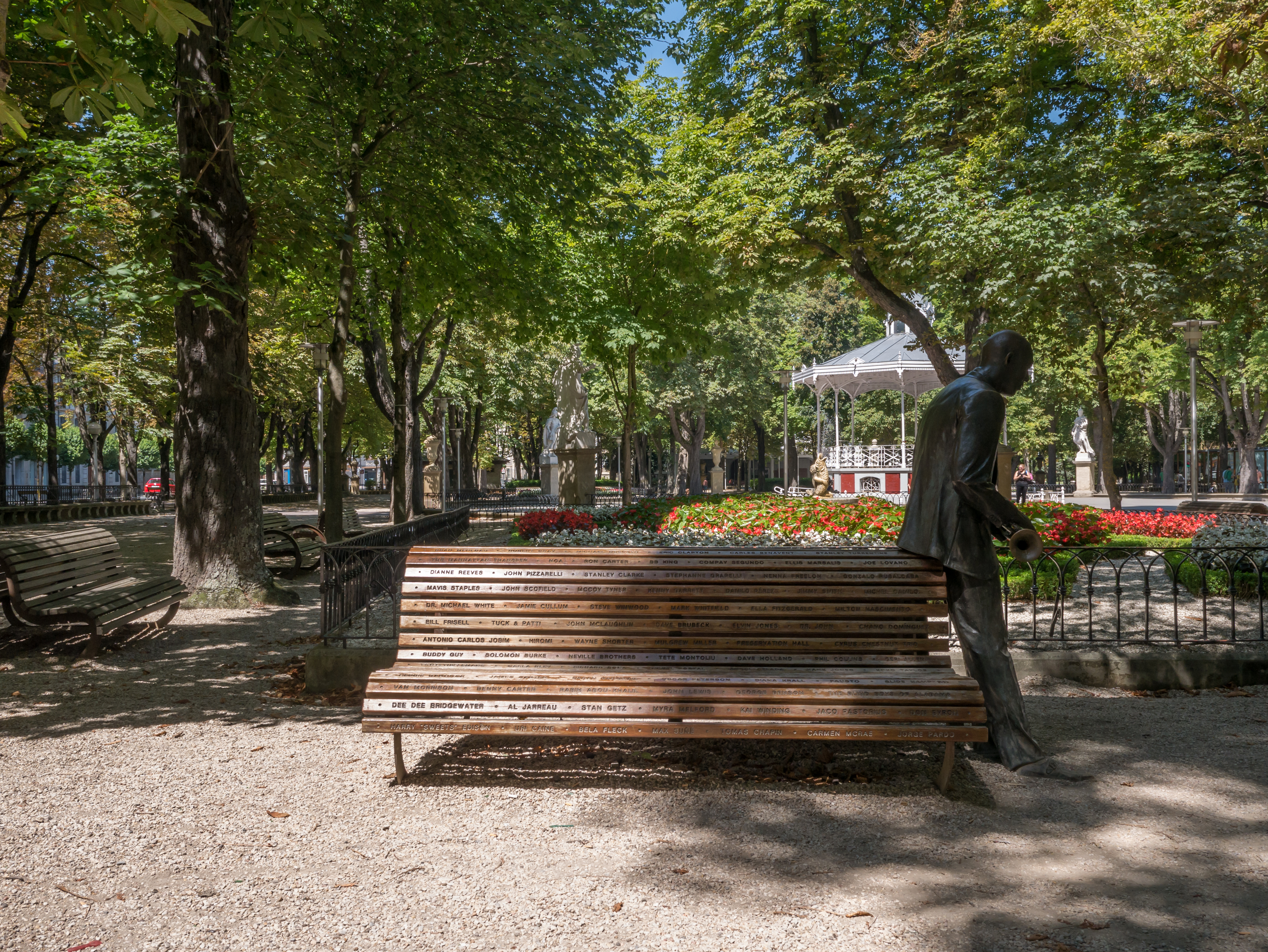 Bench and statue of Wynton Marsalis, honoring the musician and the jazz festival "Festival de Jazz de Vitoria". The bench shows the names of musicians who participated in the festival. Vitoria-Gasteiz, Basque Country, Spain